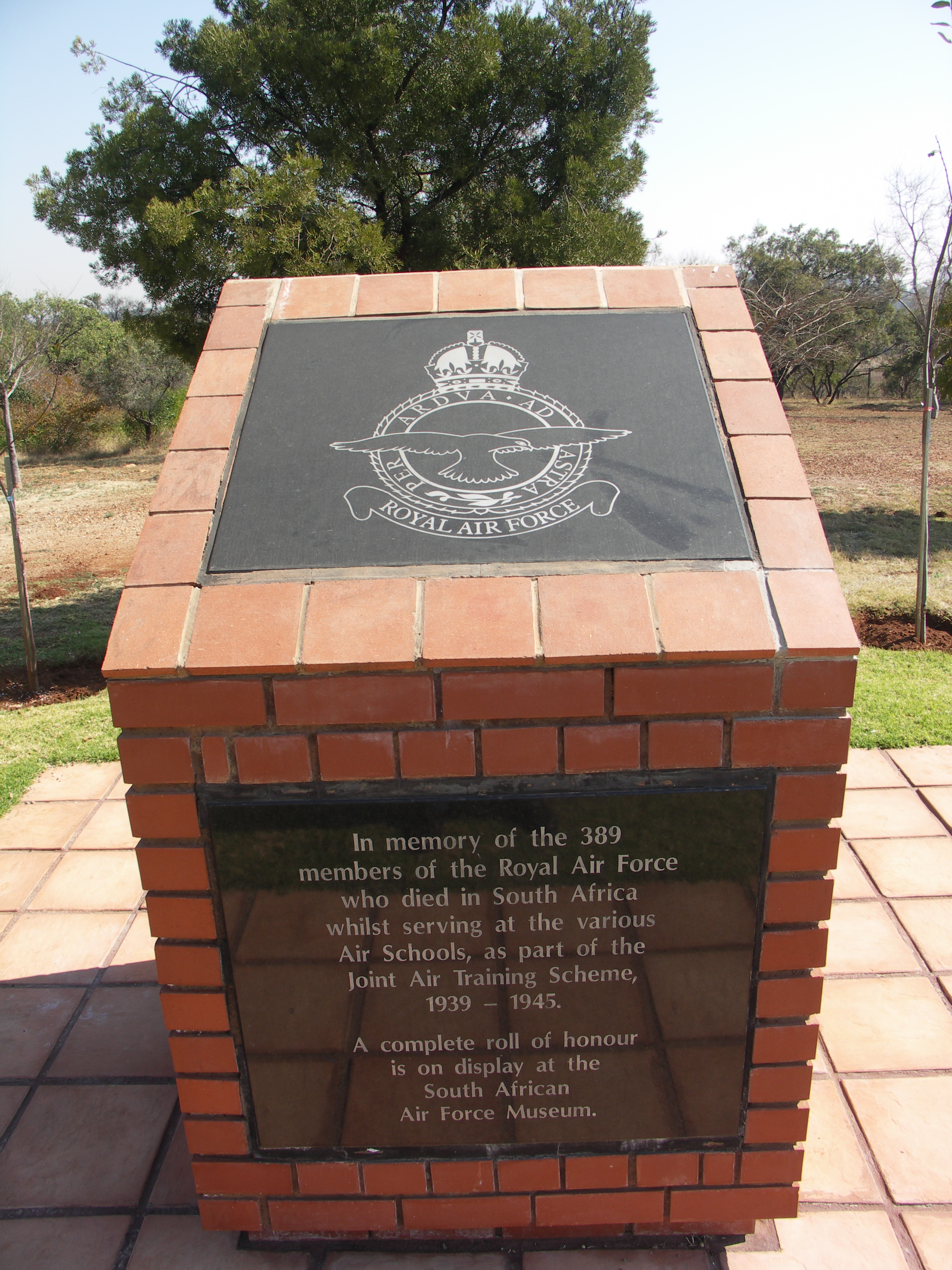 South African Air Force Memorial, Swartkop, Tshwane In memory of RAF members who died in South Africa